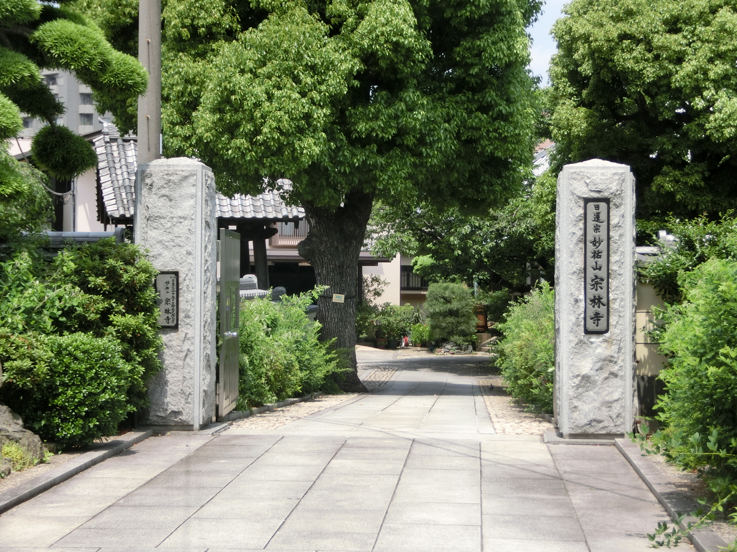 Sorin-ji (Taito)